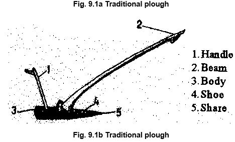 this farming tool is combined from different materials: like plow, ploughsaft, ploughshare etc.